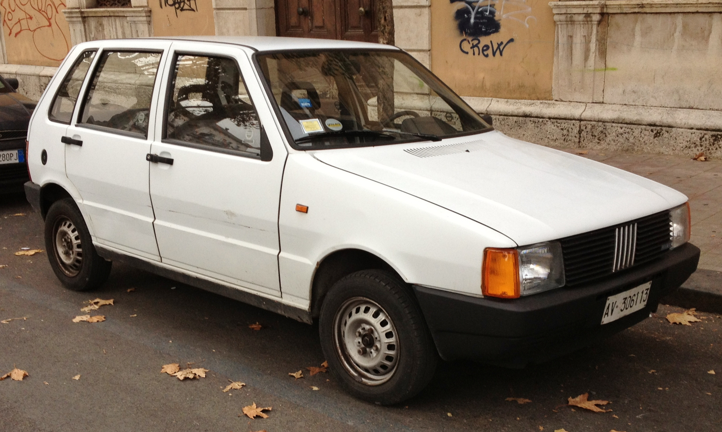 Fiat Uno 1.0 45 5door in Italy